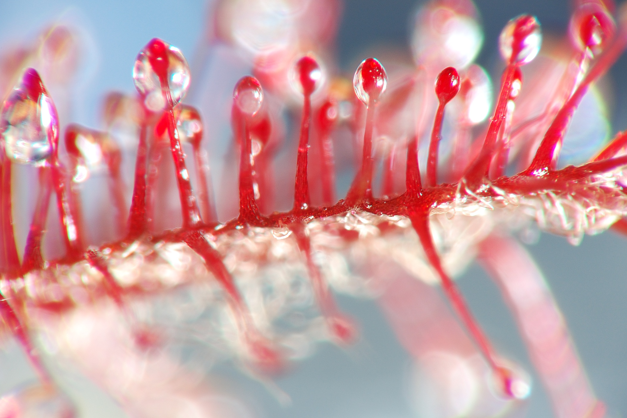 tentacles of Drosera adelae